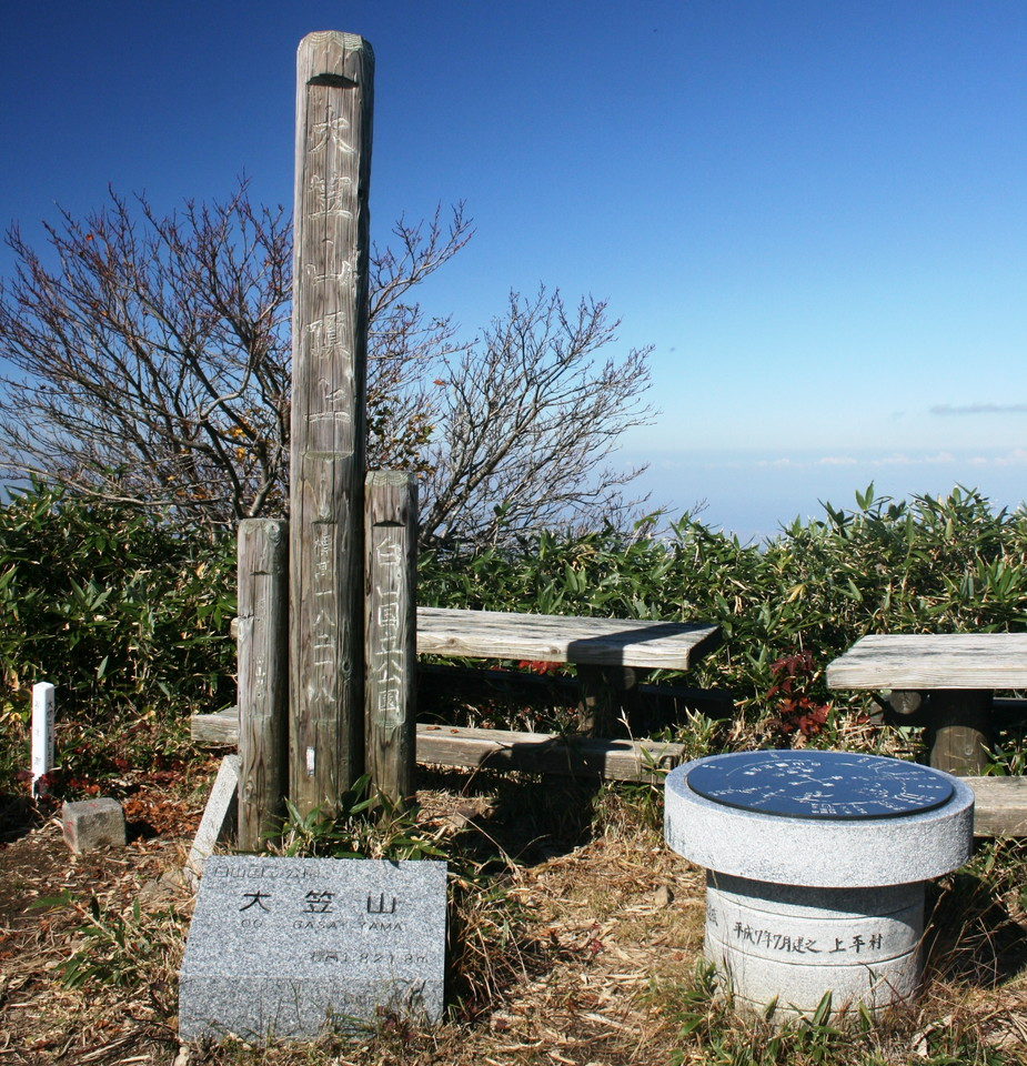 Top of Mount Ogasa, in Toyama prefecture, Japan.